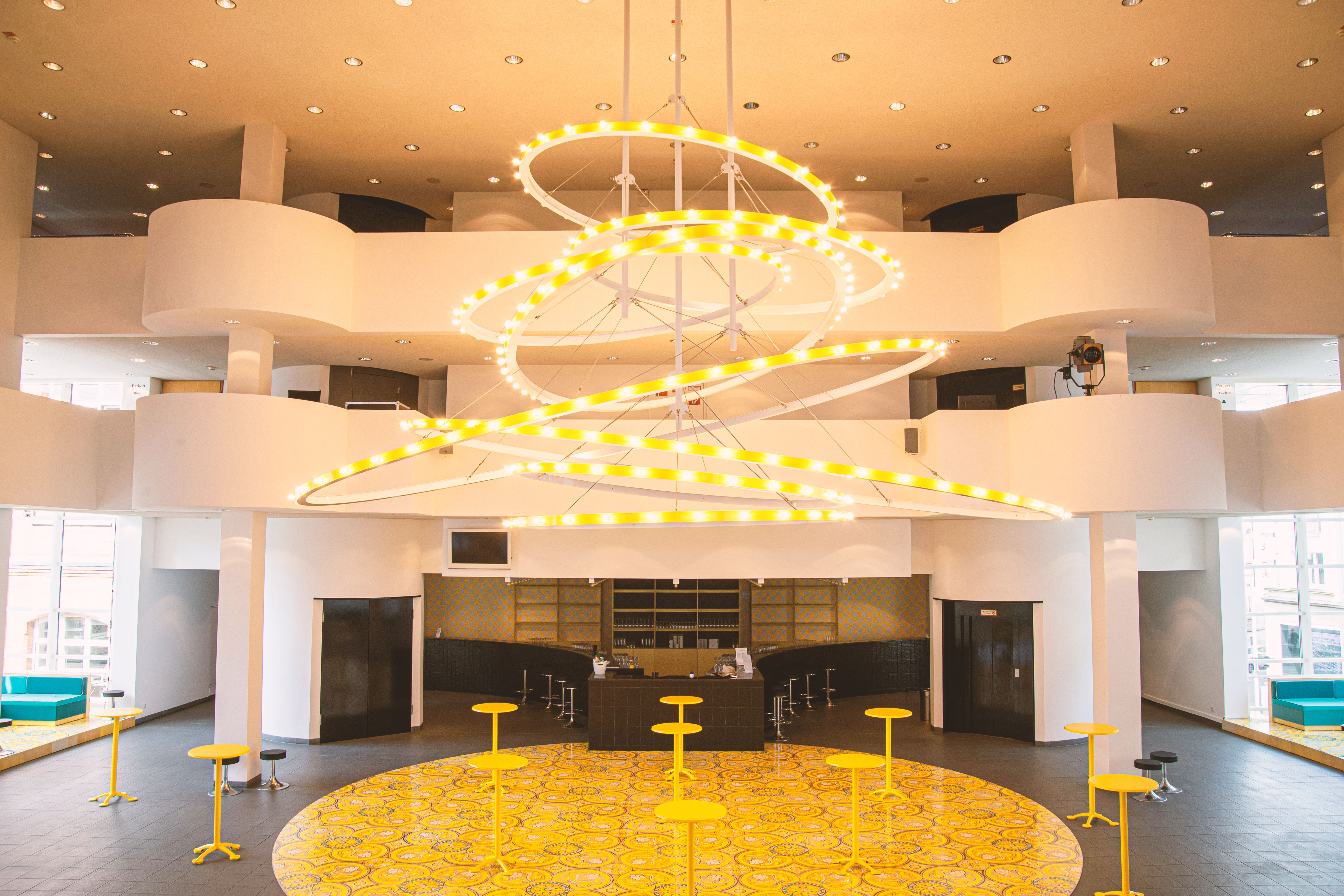 Foyer des Schauspielhauses Hannover